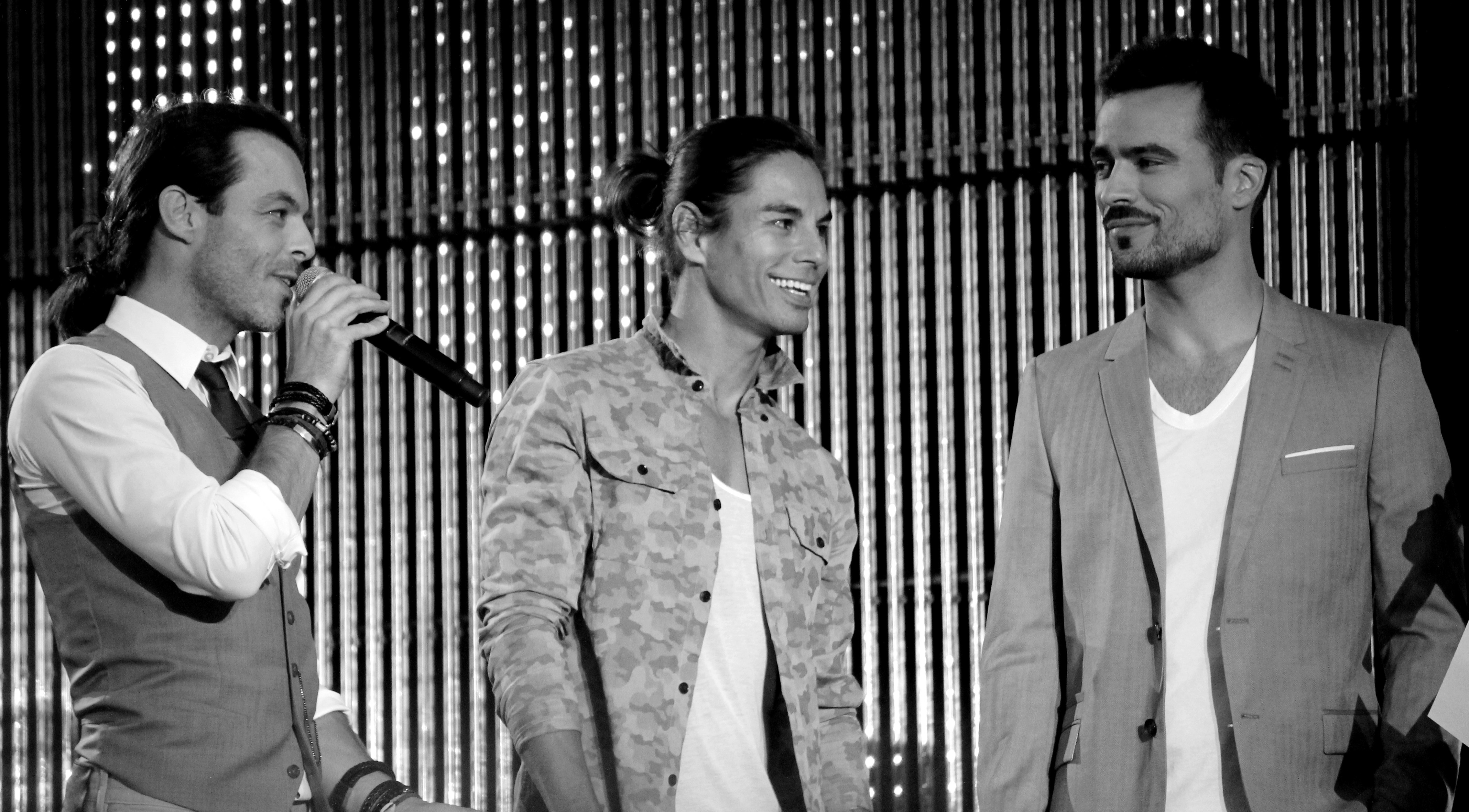 Latin Lovers - M6 music live